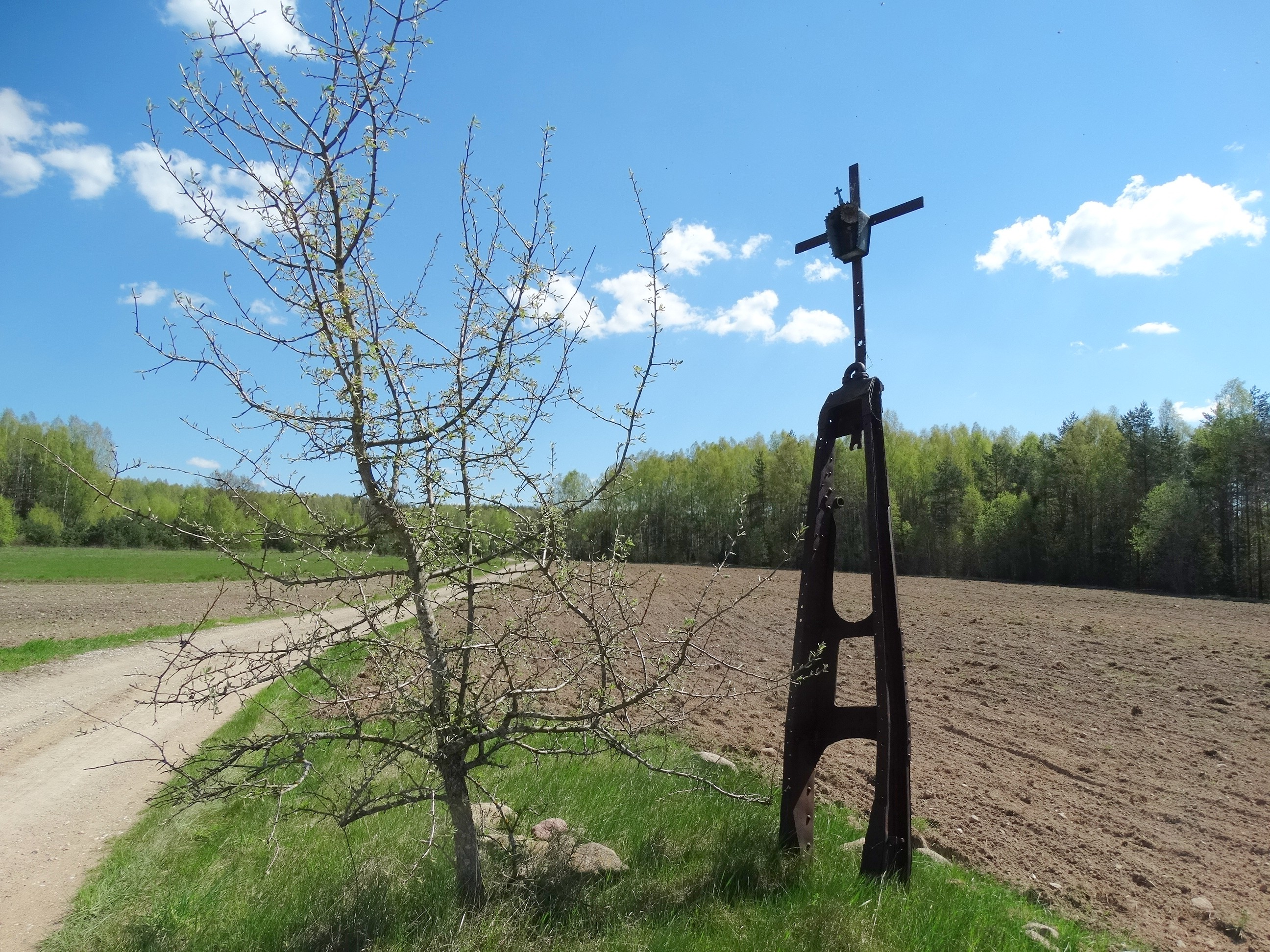 Cross, Stakai, Šalčininkai District, Lithuania